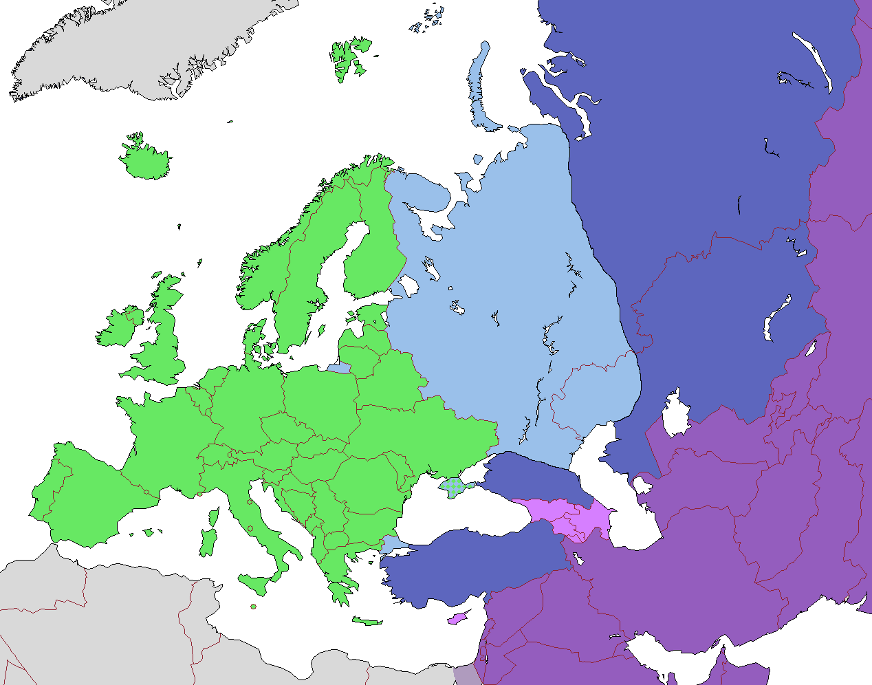 Map of Europe, indicating continental boundary (by Britannica and Great Soviet Encyclopedia) and transcontinental states. States geographically in Europe (excepting overseas possessions) Transcontinental states, European territory Transcontinental states, Asian territory Geographically Asian states (island states of Cyprus and Bahrain usually grouped with Asia geographically) Asian part of Egypt